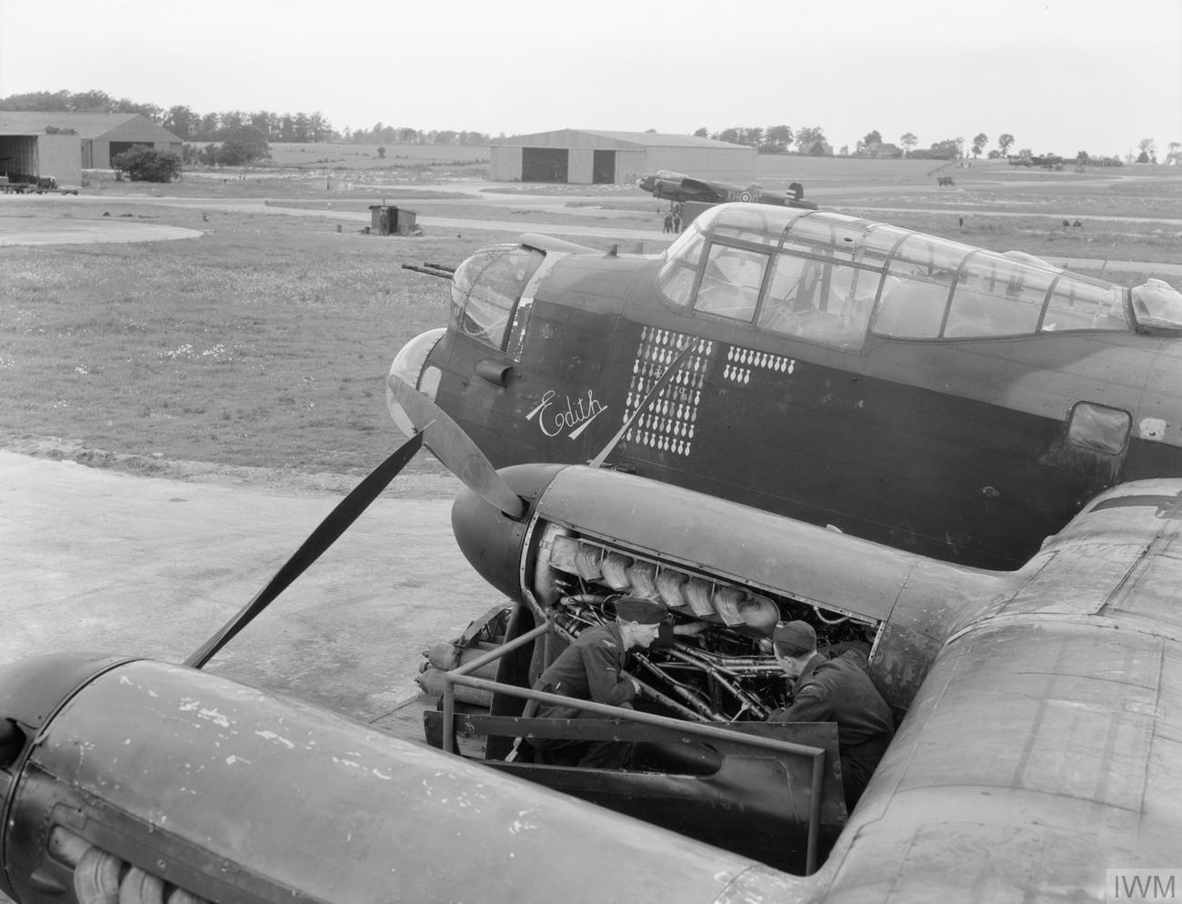 Mechanics at work on an engine of Avro Lancaster B Mark III, LM577 'HA-Q' "Edith", of No. 218 Squadron RAF on a pan hardstanding at Chedburgh, Suffolk.